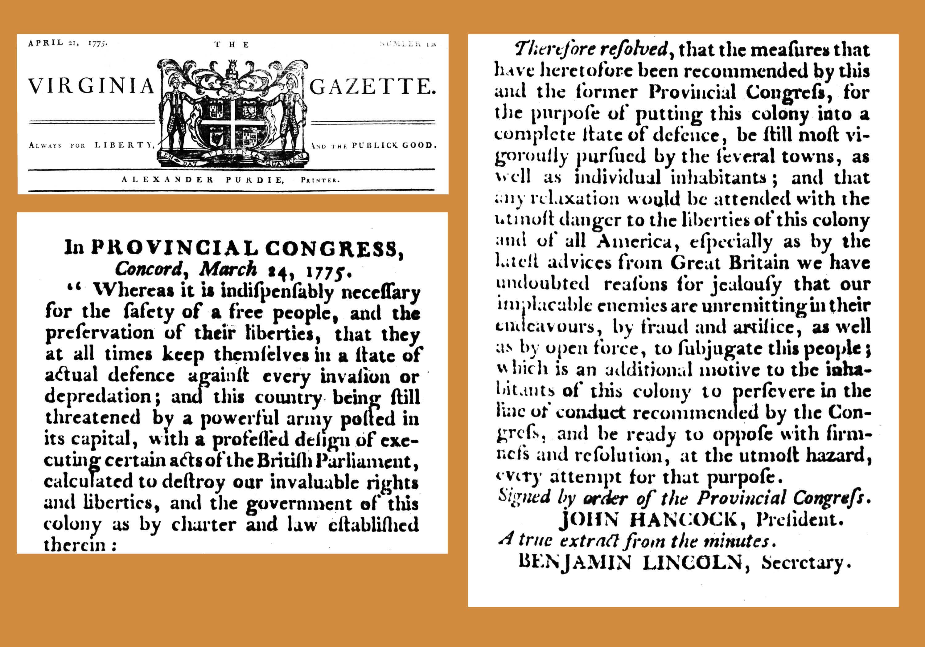 Resolution of the Massachusetts Provincial Congress of March 24, 1775, signed by its president John Hancock, as printed in The Virginia Gazette (Williamsburg, Virginia) on April 21, 1775. Full text: IN PROVINCIAL CONGRESS Concord, March 24, 1775 Whereas it is indispensably necessary for the safety of a free people, and the preservation of their liberties, that they at all times keep themselves in a state of actual defence against every invasion or depredation; and this country being still threatened by a powerful army posted in its capital, with a professed design of executing certain acts of the British Parliament, calculated to destroy our invaluable rights and liberties, and the government of this colony as by charter and law established therein: Therefore resolved, that the measures that have heretofore been recommended by this and the former Provincial Congress, for the purpose of putting this colony into a complete state of defence, be still most vigorously pursued by the several towns, as well as individual inhabitants; and that any relaxation would be attended with the utmost danger to the liberties of this colony and of all America, especially as by the latest advices from Great Britain we have undoubted reasons for jealousy that our implacable enemies are unremitting in their endeavours, by fraud and artifice, as well as by open force, to subjugate this people; which is an additional motive to the inhabitants of this colony to persevere in the line of conduct recommended by the Congress, and be ready to oppose with firmness and resolution at the utmost hazard, every attempt for that purpose. Signed by order of the Provincial Congress. JOHN HANCOCK, President. A true extract from the minutes. BENJAMIN LINCOLN, Secretary.